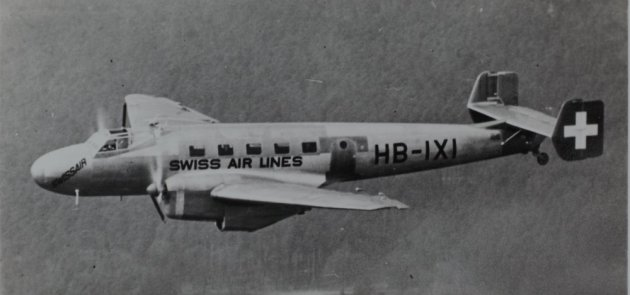 PictionID:38236312 - Catalog:Array - Title:Array - Filename:15_002325.TIF - -------Image from the Charles Daniels Photo Collection.----Album: German Aircraft.-----------PLEASE TAG these images with any information you know about them so that we can permanently store this data with the original image file in our Digital Asset Management System.-----------------SOURCE INSTITUTION: San Diego Air and Space Museum Archive